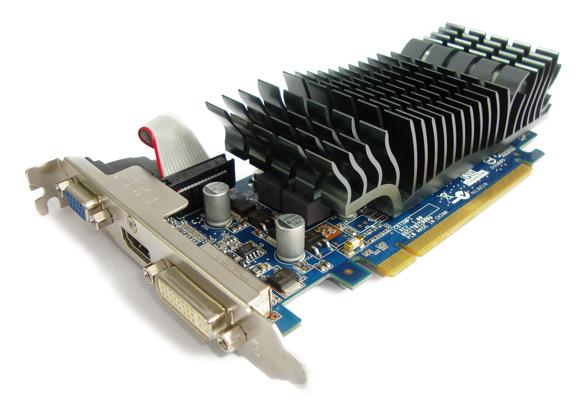 ASUS NVIDIA GeForce 210 silent graphics card with HDMI